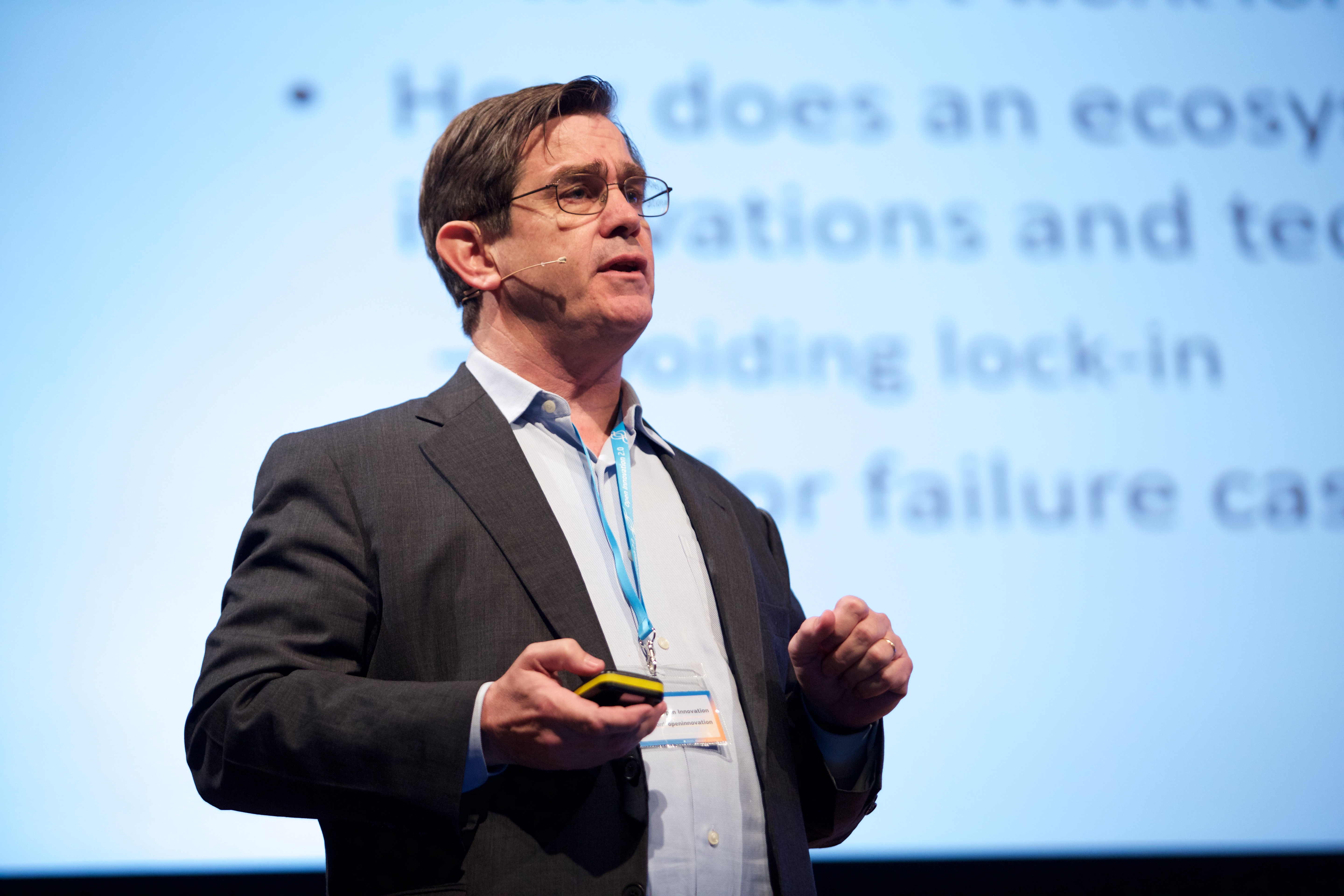 During the Open Innovation 2.0 event several topics have been discussed, like European Innovation Living labs; Innovation Ecosystems; OI2 funding opportunities under Horizon 2020; Online Engagement Platforms (Big Data, Cloud, IoT, participatory design); etc.